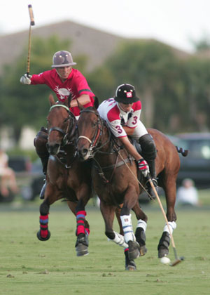 Polo Players